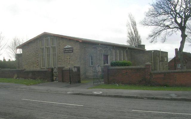 St Thomas More Catholic Church - Maple Road, Chickenley